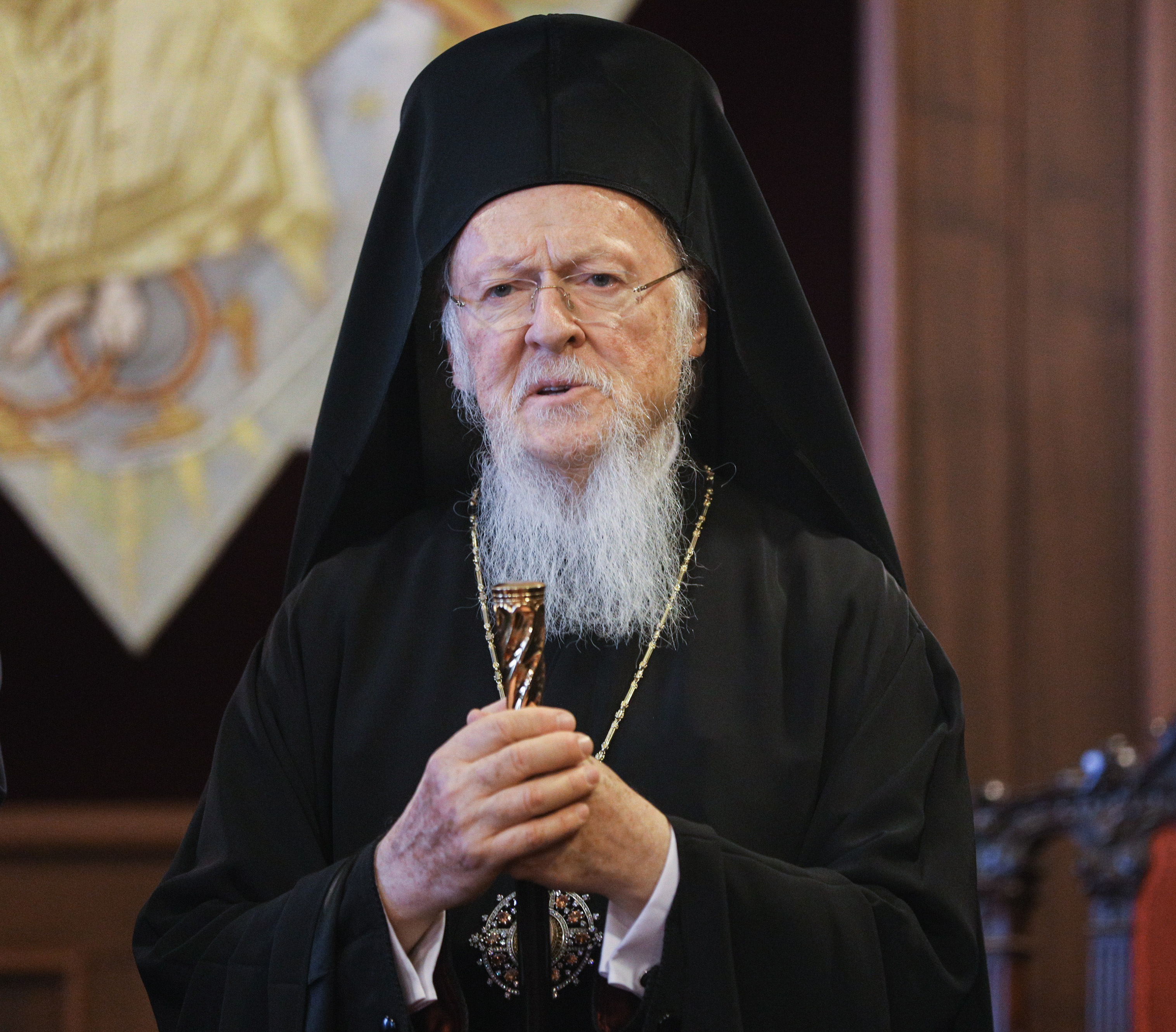 Ecumenical Patriarch Bartholomew I